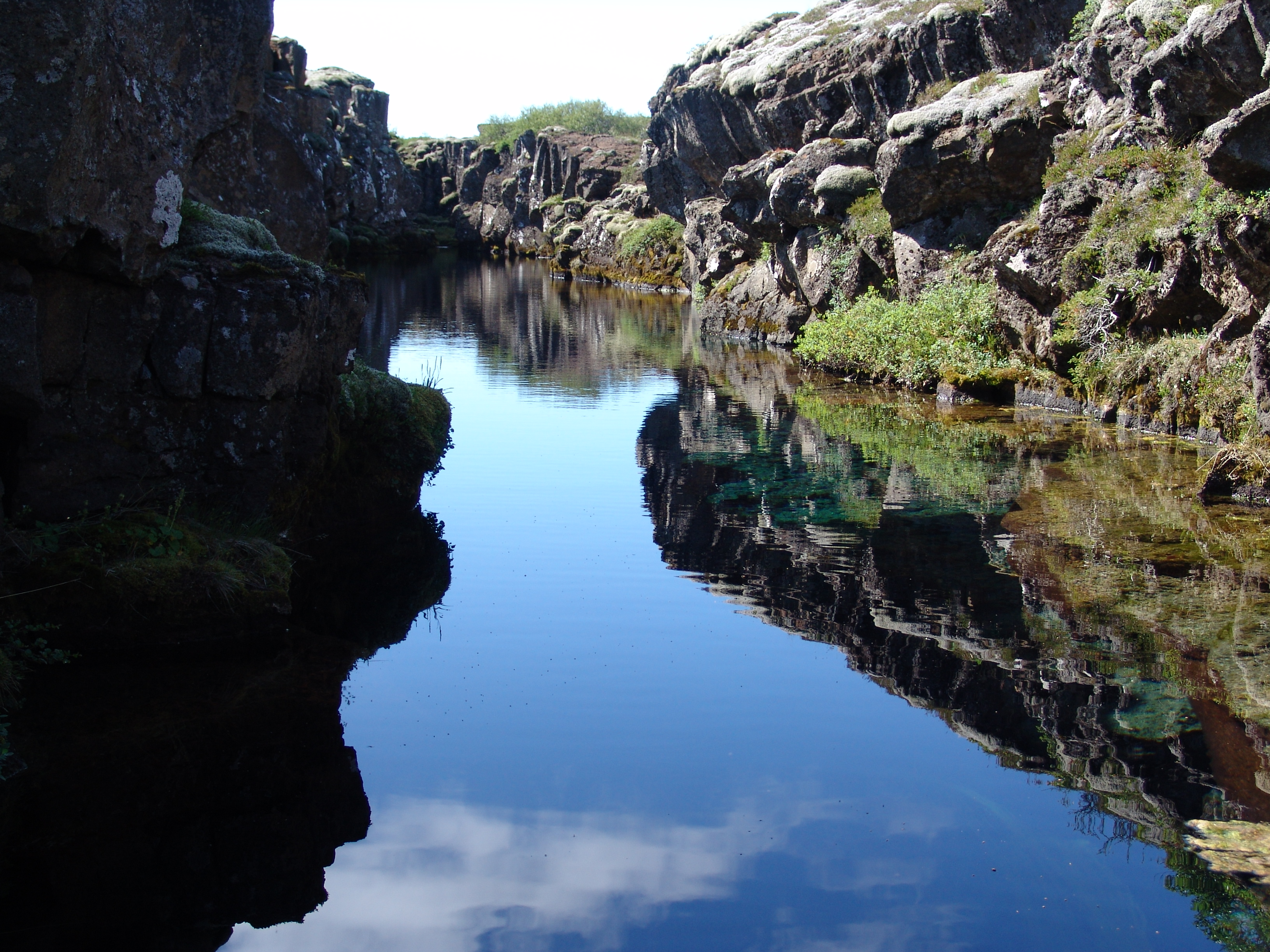 Riss durch Island; Þingvellir, Iceland